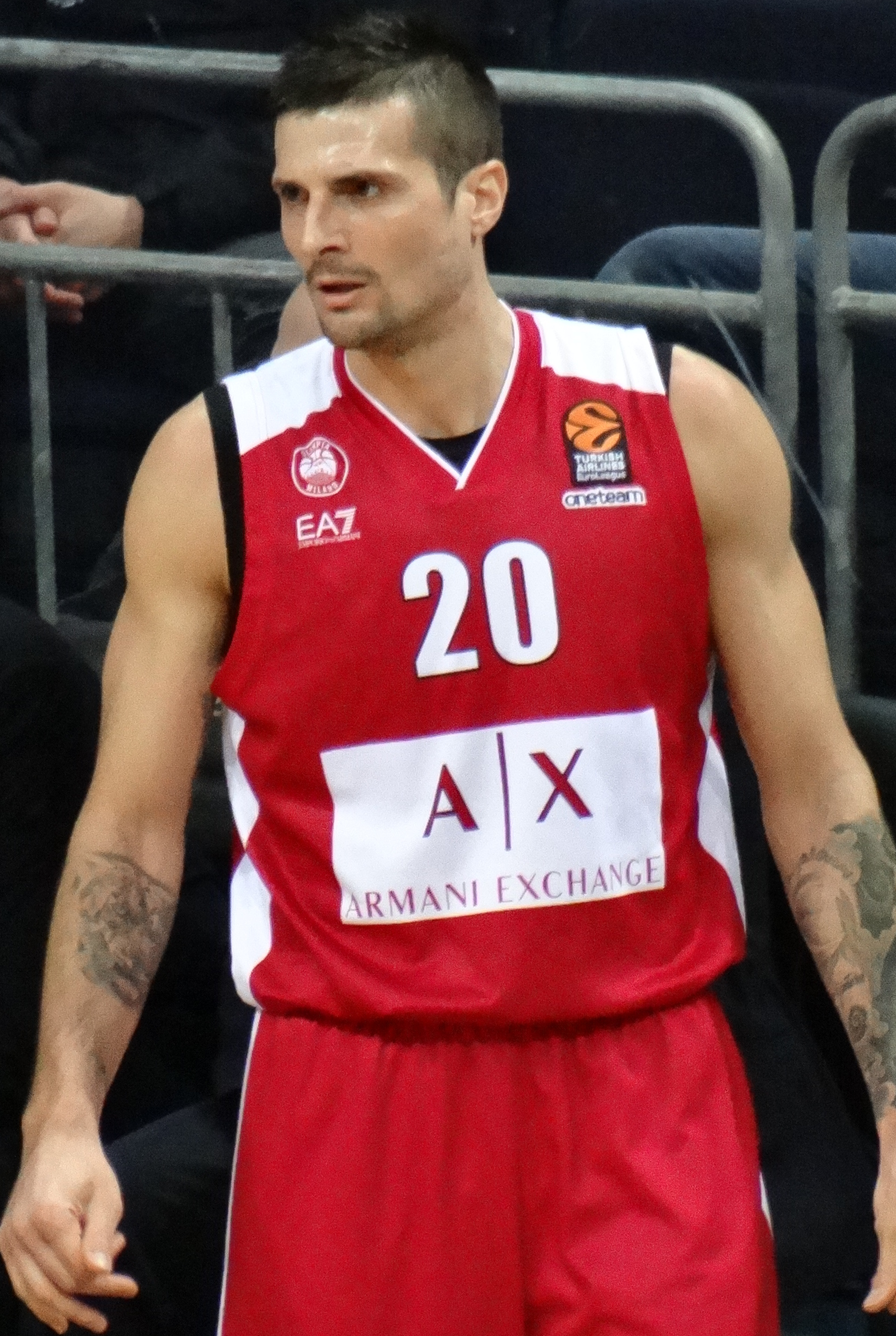 Andrea Cinciarini 20 AX Armani Exchange Olimpia Milan 20180222